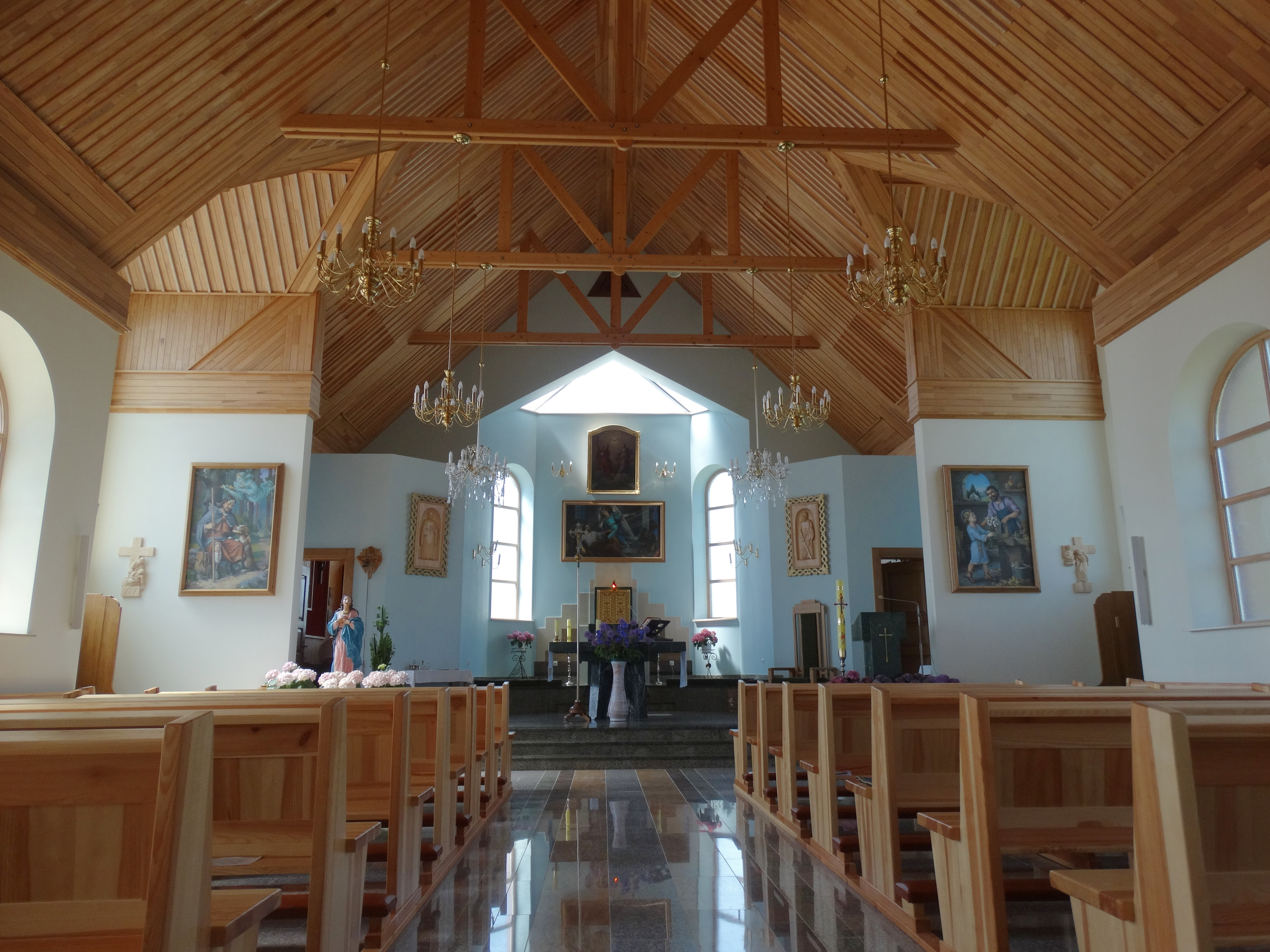 Patilčiai church interior, Marijampolė Municipality, Lithuania